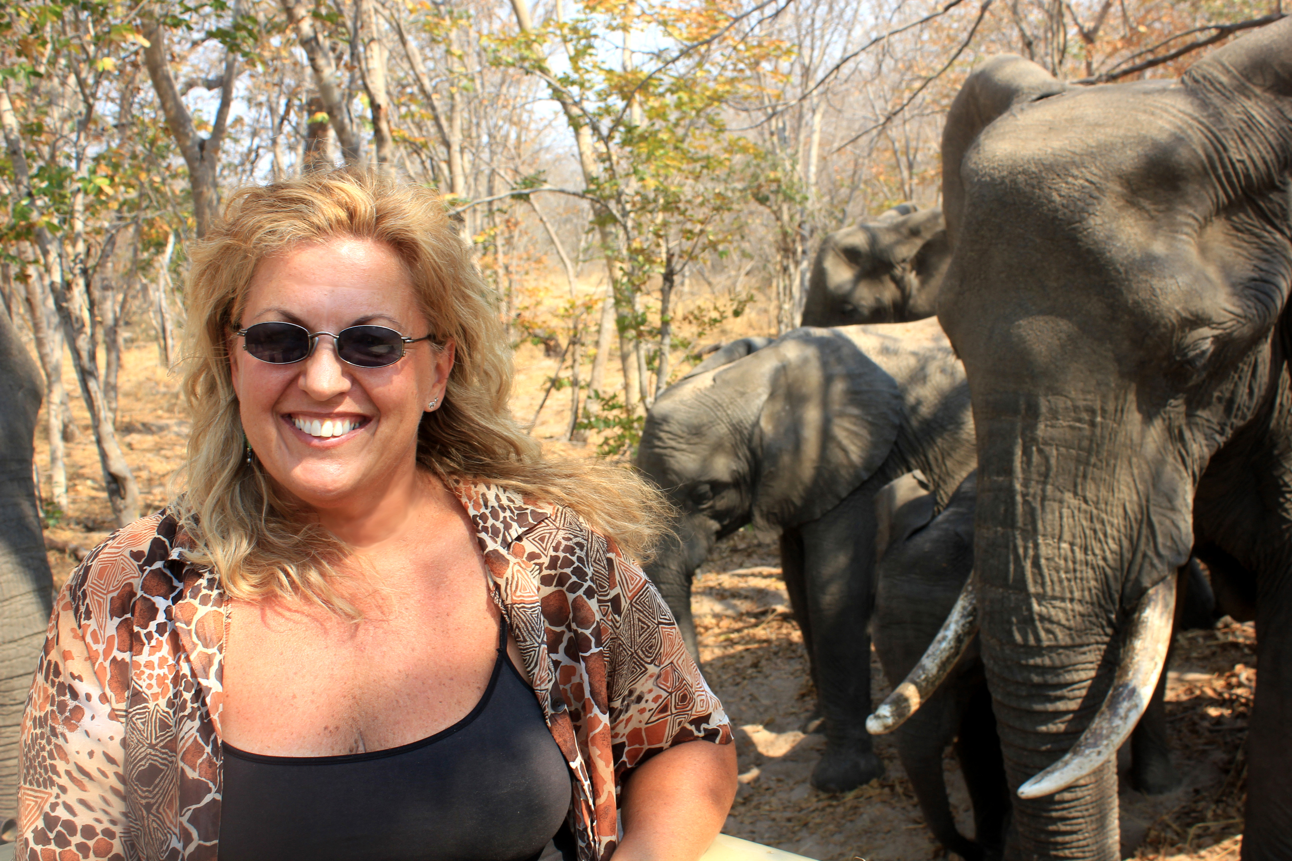 Sharon Pincott in Hwange, Zimbabwe - for use on the Wiki article titled Sharon Pincott.